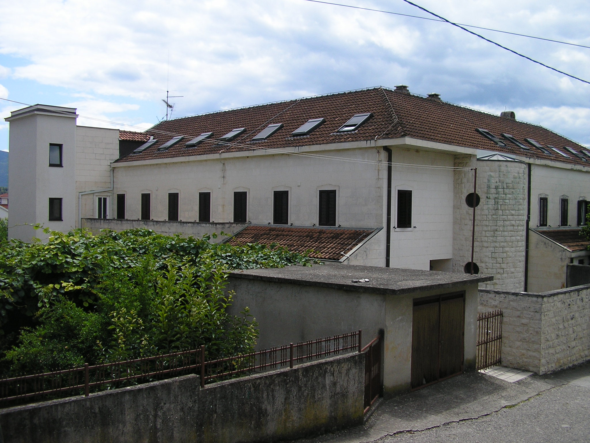 Holy Family's Monastery of nuns, Servants of the Little Jesus in Metković